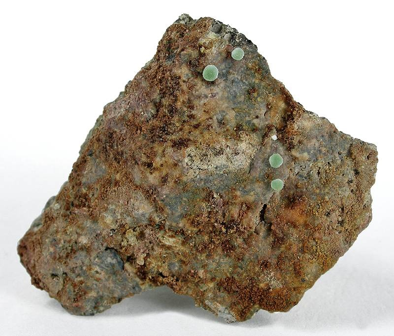 Kolbeckite Locality: Schlarbaum quarry, Klause, Bad Gleichenberg, Styria, Austria (Locality at ) Size: 4.9 x 3.9 x 2.3 cm. Kolbeckite is a very rare scandium-rich phosphate mineral species (and there are not many such species). This is from a classic occurrence, and features relatively large spherical aggregates of microcrystals to just over 1mm in size, nicely isolated and so easily eye-visible. This is, for the material, extremely rich.